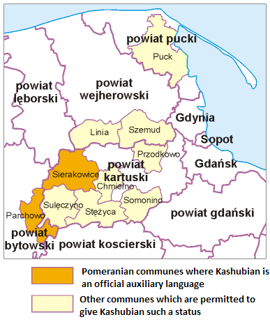 Kashubian language in Poland. Orange: Communes where Kashubian is an official auxiliary language Yellow: Other communes which are permitted to give Kashubian such a status